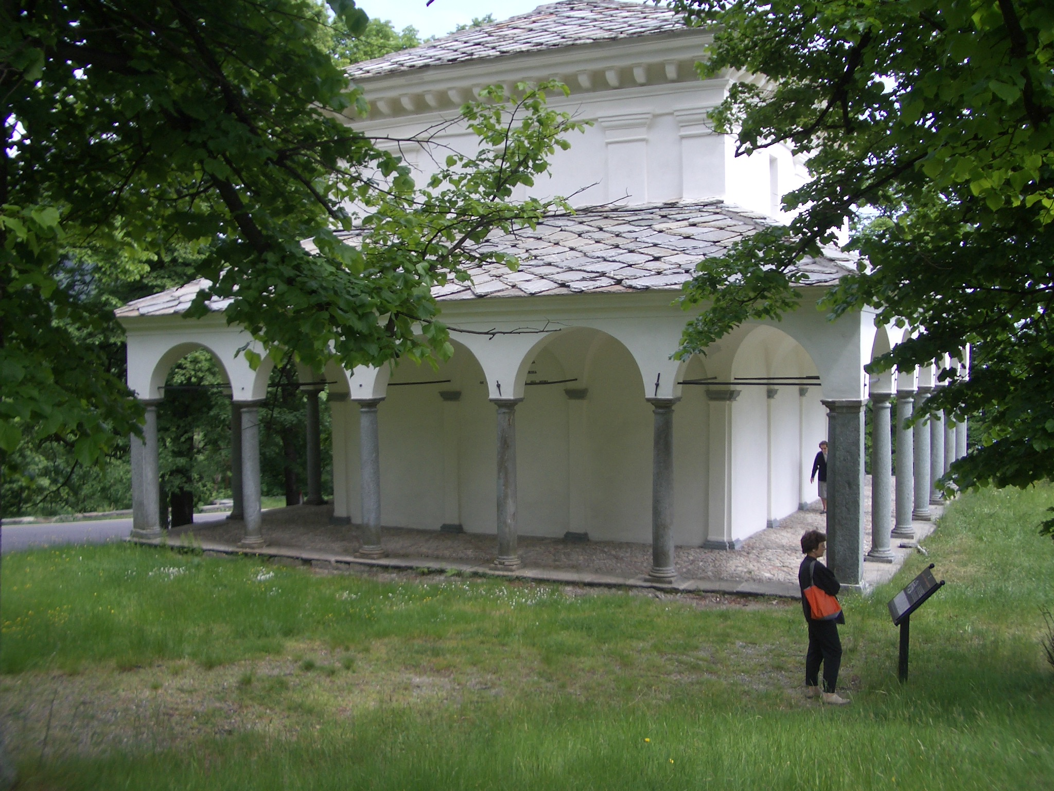 Photo of a chapel at Sacro Monte of santuario di Oropa (XVII century), Oropa (Biella), Italy